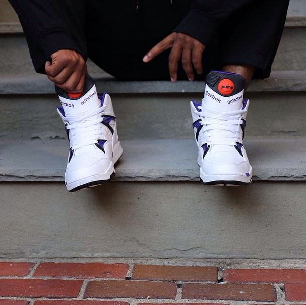 Pump It